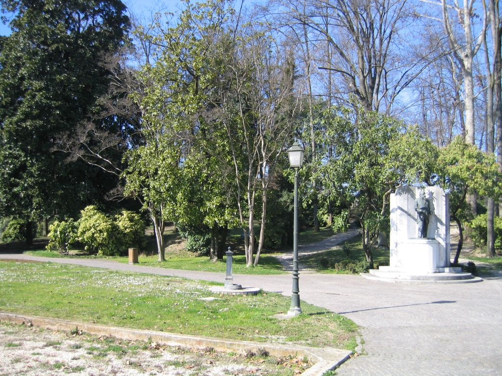 Oderzo (Treviso, Veneto, Italy). Public gardens.